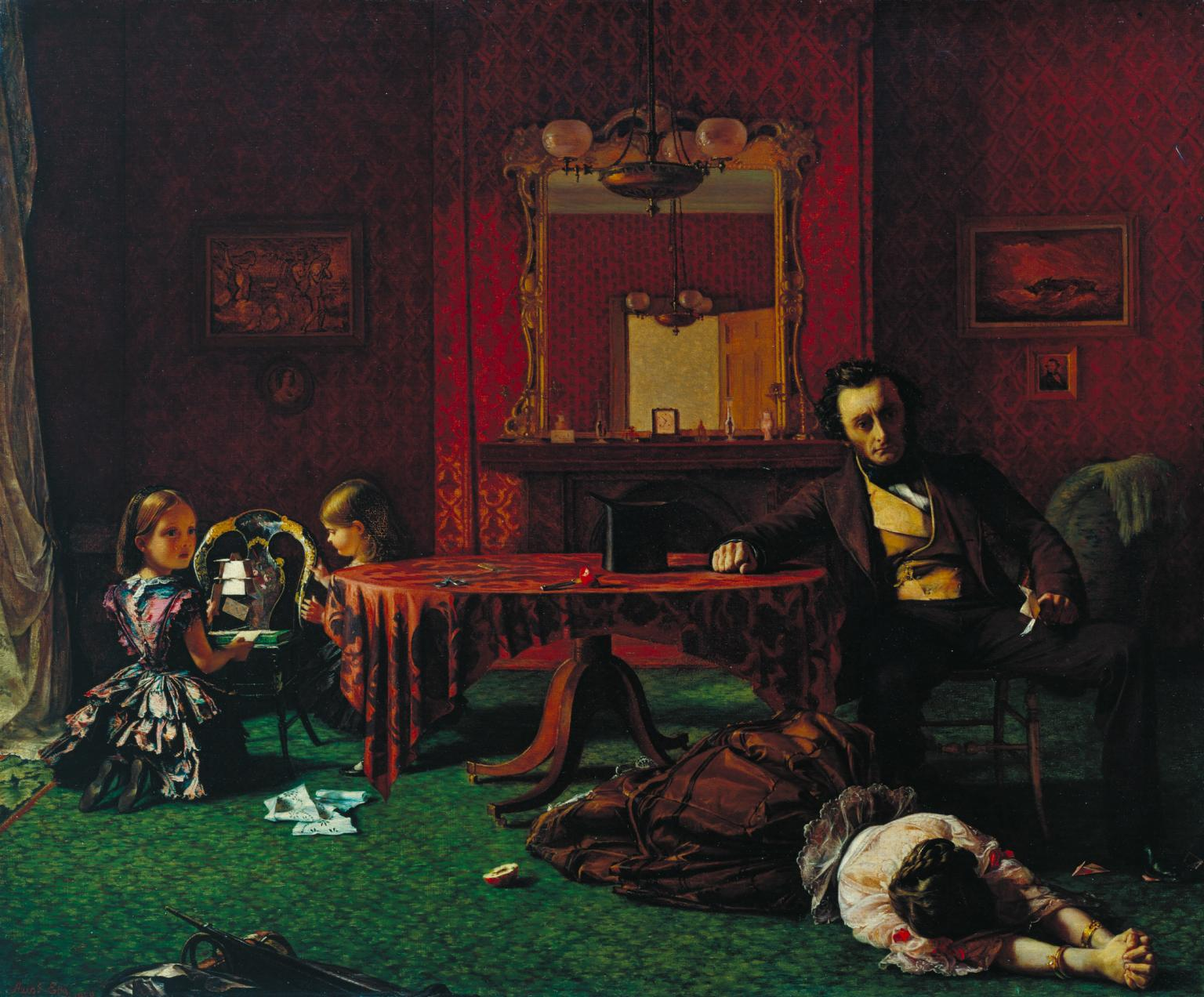 Wikipedia page - the model for the girl with the cards is Jane Frith